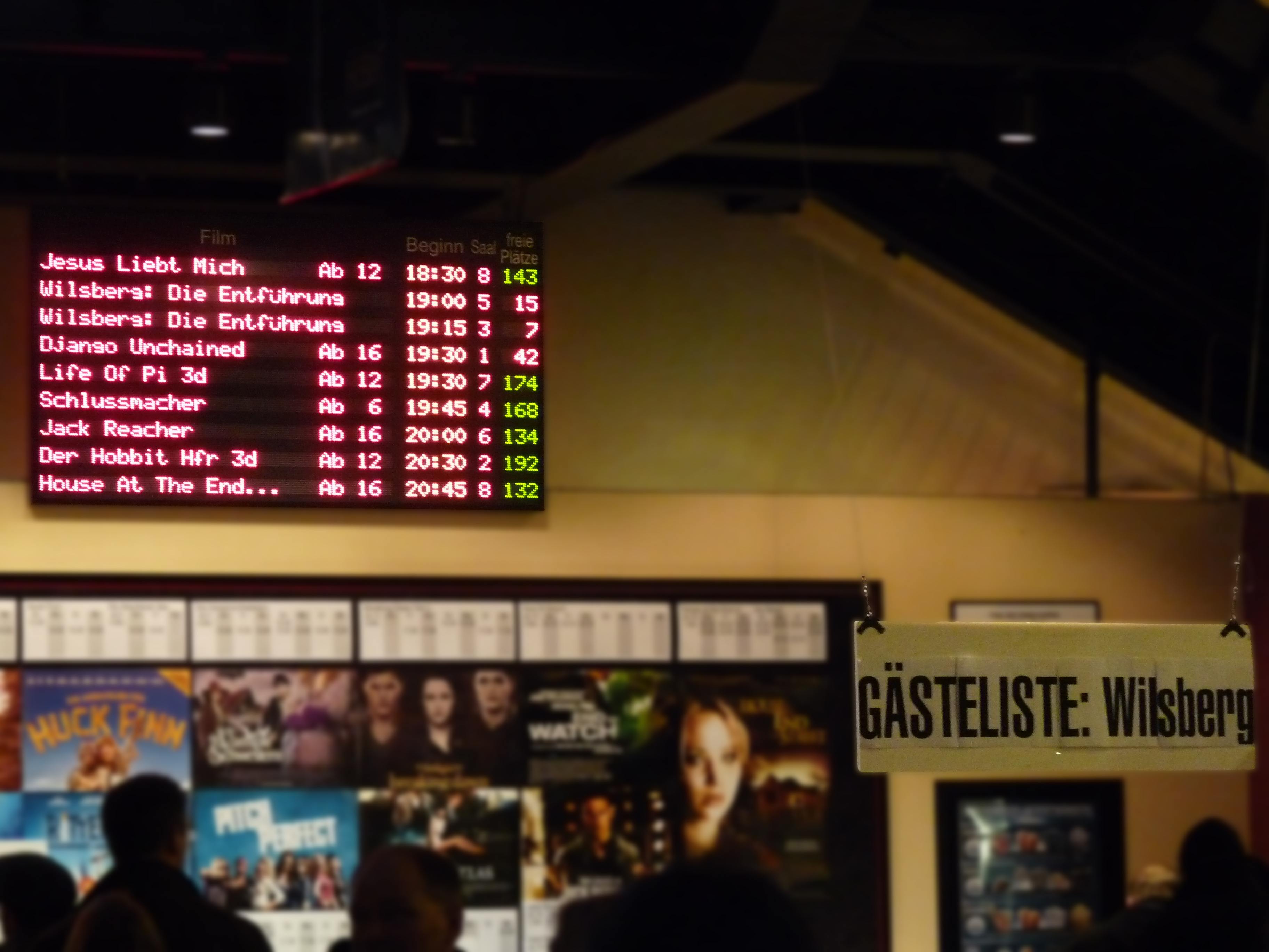 Premiere of Wilsberg: Die Entführung in the Cineplex in Münster